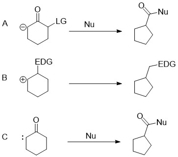 A scheme showing the major types of mechanisms for performing a ring contraction.